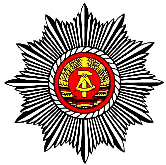 Coats of arms of the German Democratic Republic, here Police star of "Deutsche Volkspolizei" until 1990.